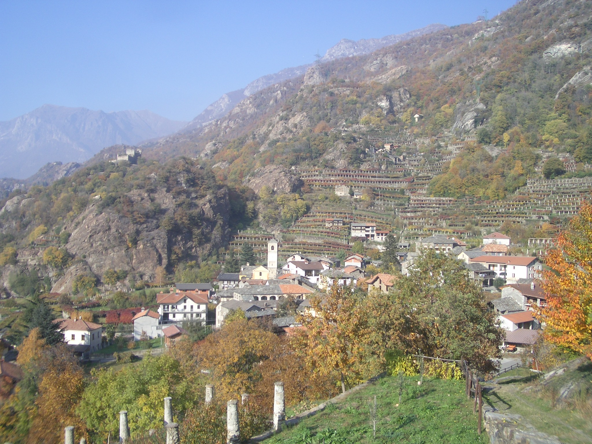 ”View of Cesnola”, Settimo Vittone, Turin, Italy